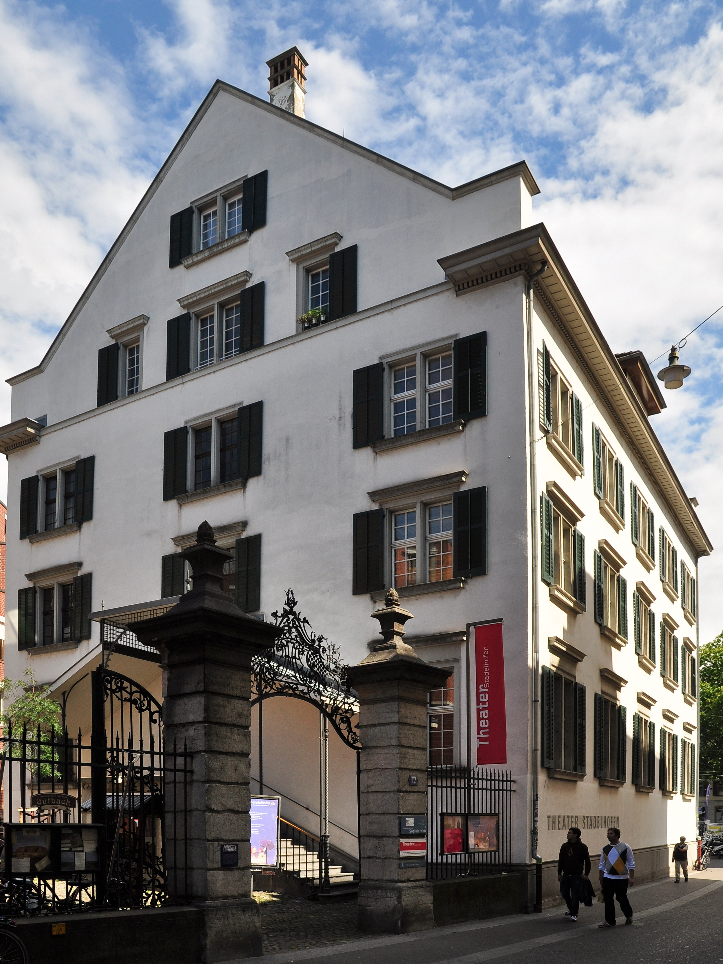 Haus zum Sonnenhof, Swiss Social Archives & Theater Stadelhofen, Stadelhoferstrasse 12, Zürich-Mühlebach (Switzerland)